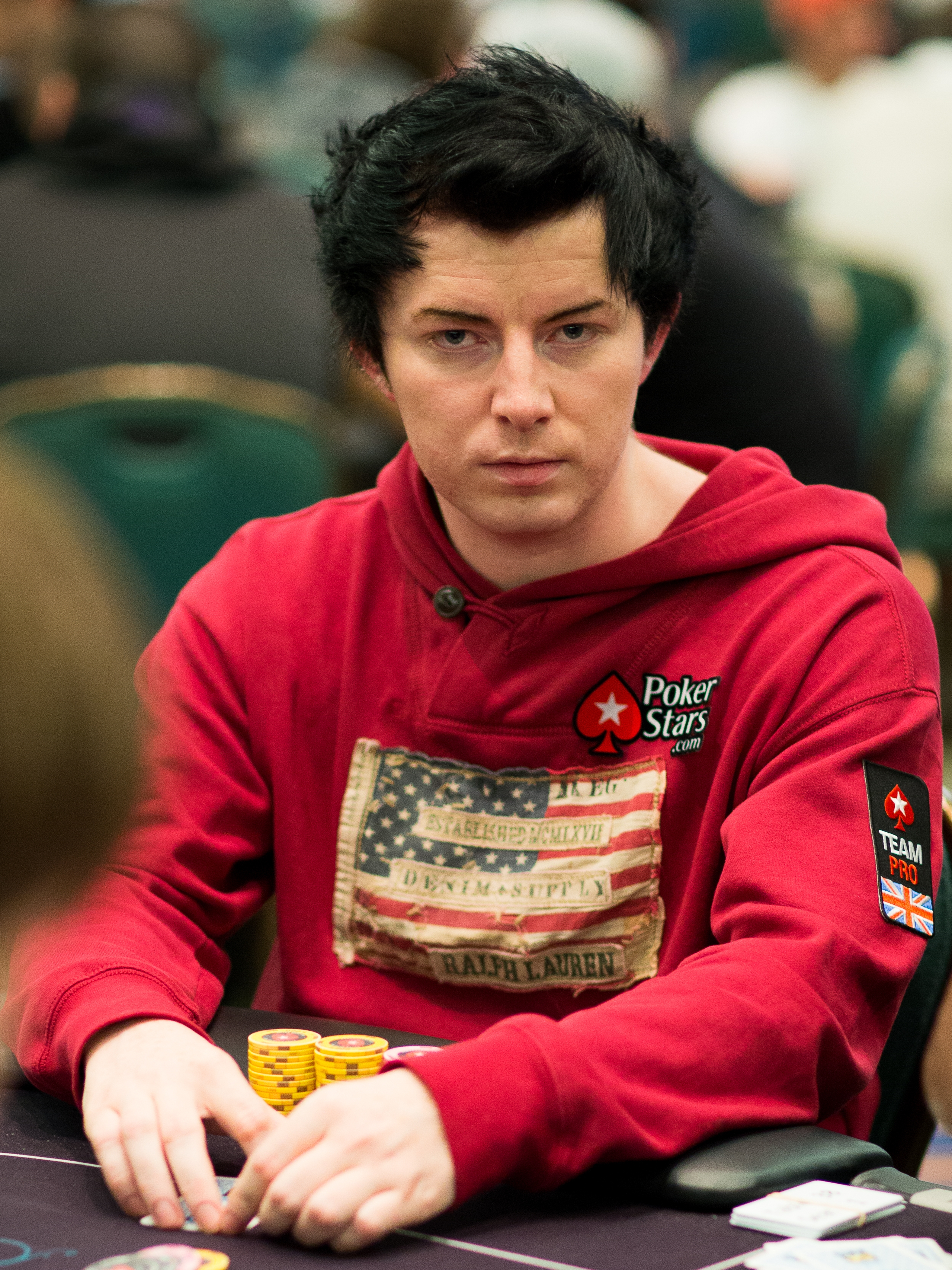 Jake Cody at PokerStars Caribbean Adventure 2013